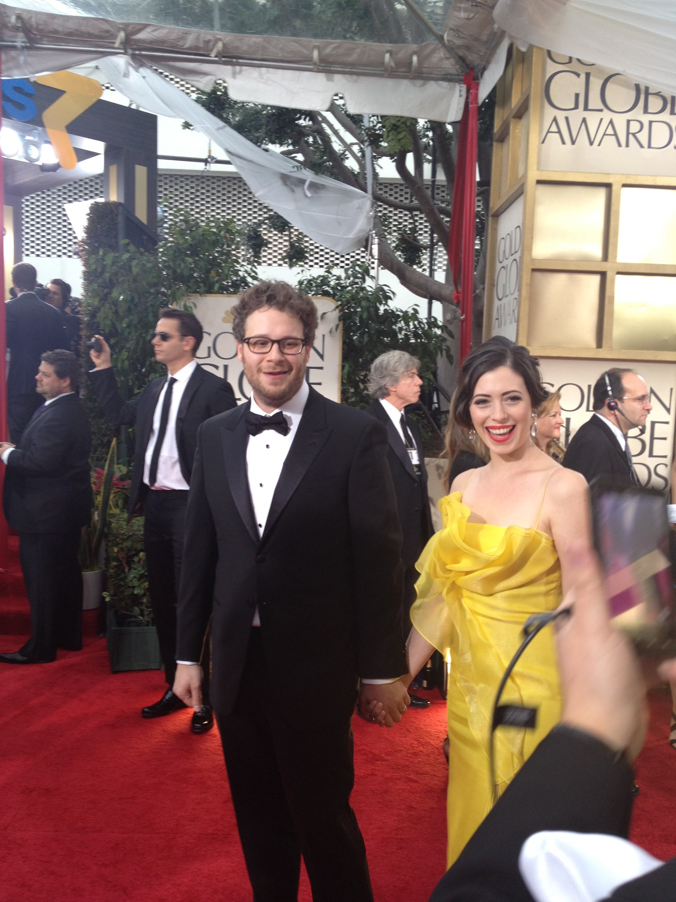 Actor Seth Rogan with his wife, actress Lauren Miller, at the 69th Annual Golden Globes Awards.